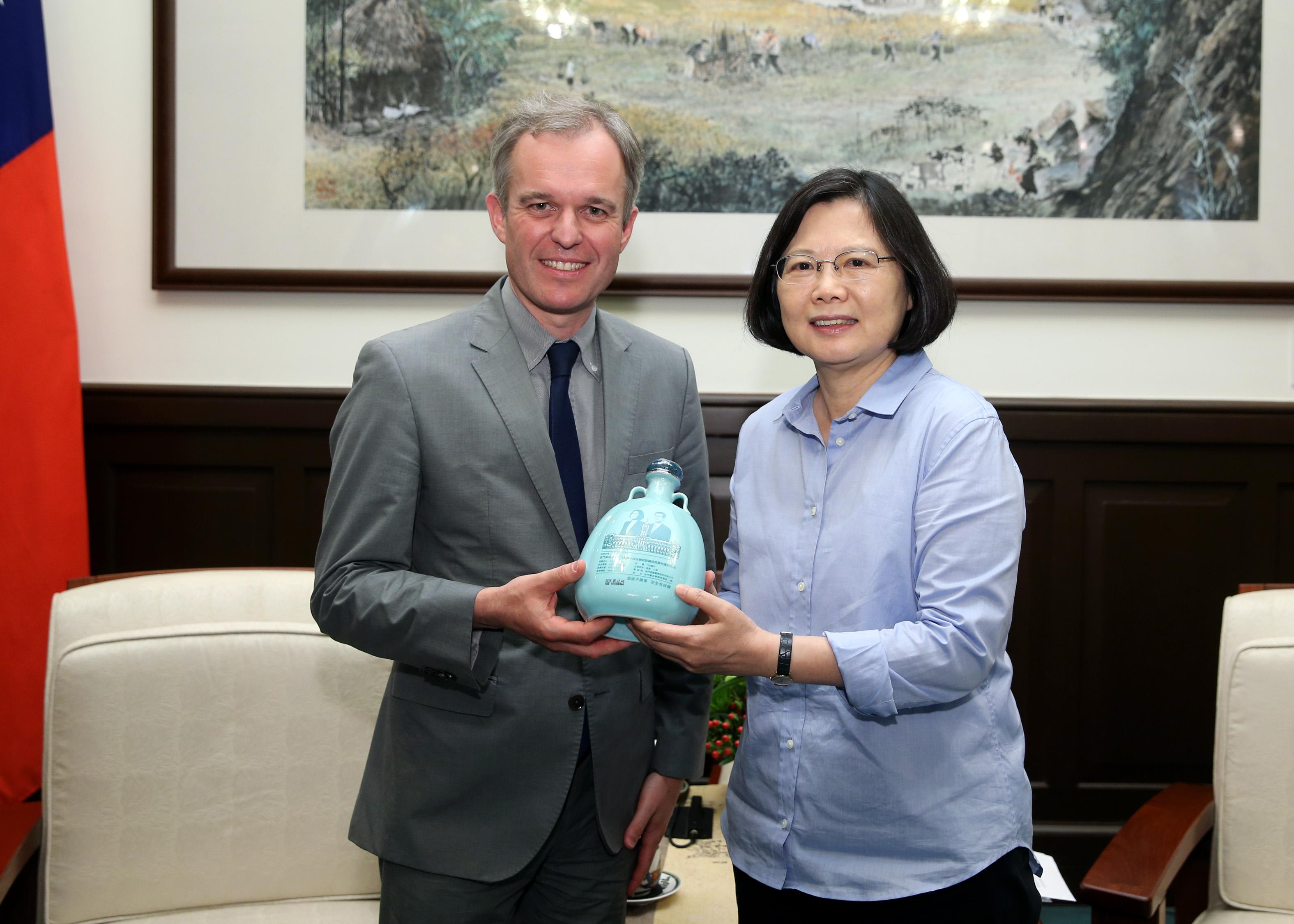 President Tsai meets a delegation led by French National Assembly Vice President Francois de Rugy, on 7 July 2016.